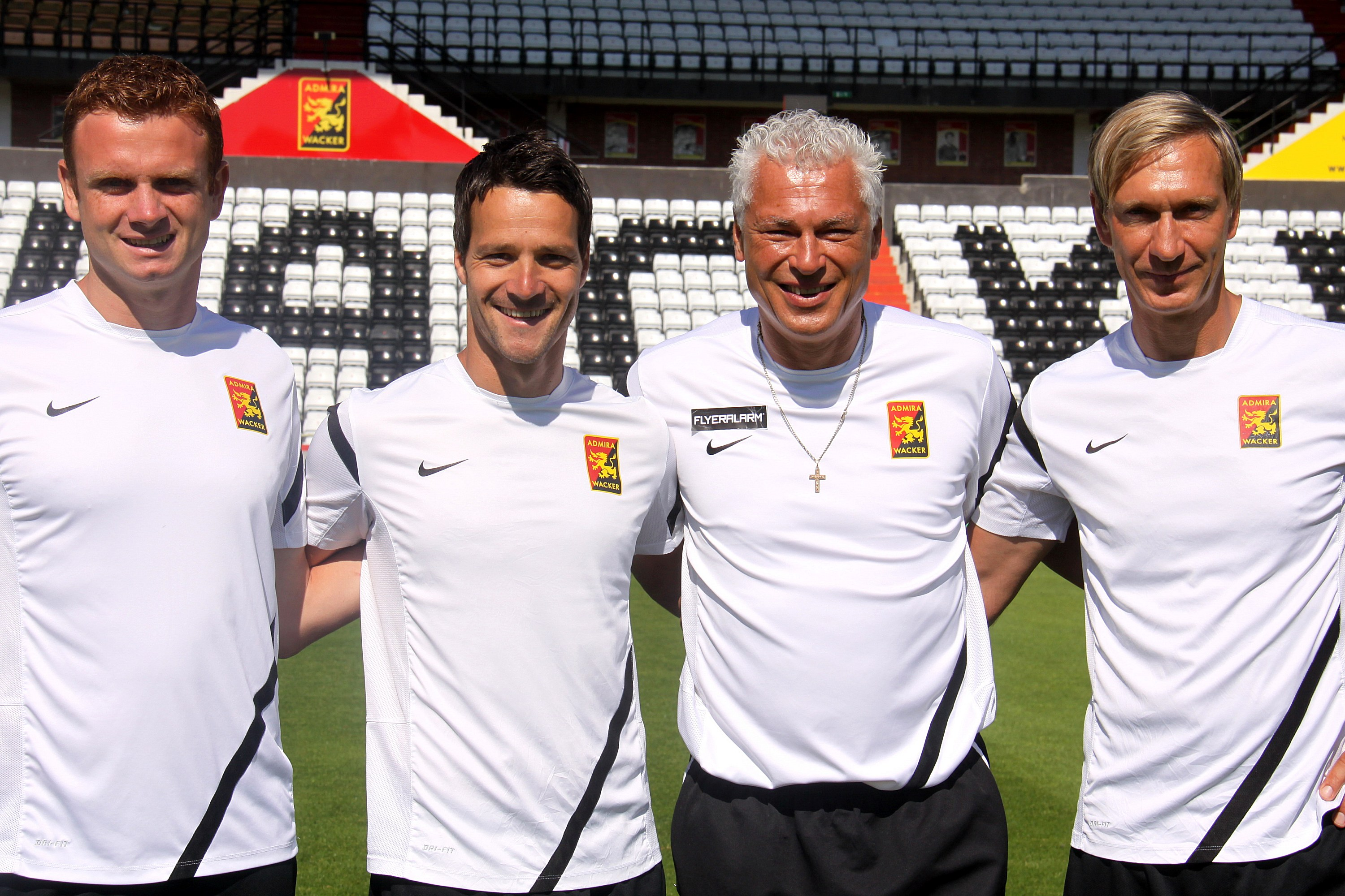 Teampresentation FC Admira Wacker Mödling at 2013-07-02 in Bundesstadion Südstadt. – The photo shows (from left to right) the coaches Michael Horvath (assistent-coach), Oliver Lederer (assistent-coach), Anton Polster (headcaoch) and Georg Heu (keeper-coach). - Google Maps - Google Earth